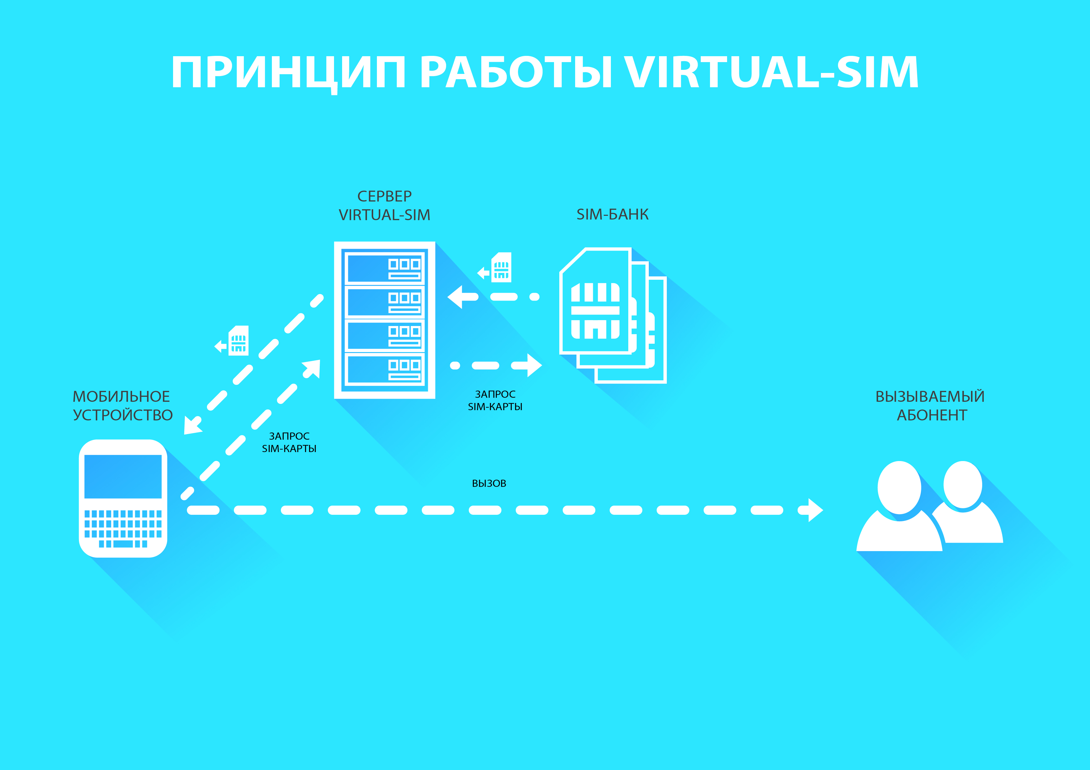 Схема работы Virtual SIM